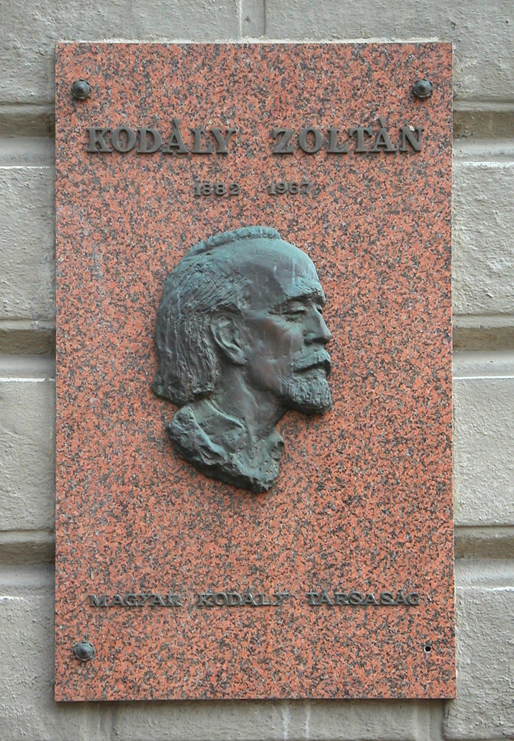 Commemorative plaque of the Hungarian Composer Zoltán Kodály, found in the Andrassy-Ut in Budapest